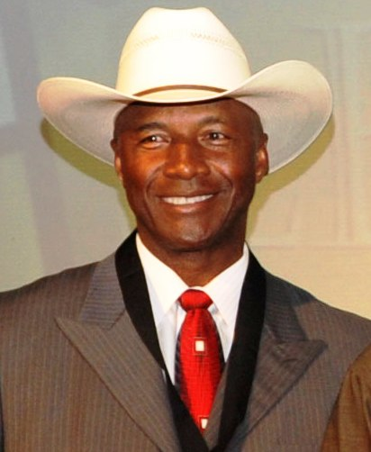 Pro Football Hall of Fame member Mel Blount at the Ballroom of the Americas at Disney’s Contemporary Hotel, near Orlando.